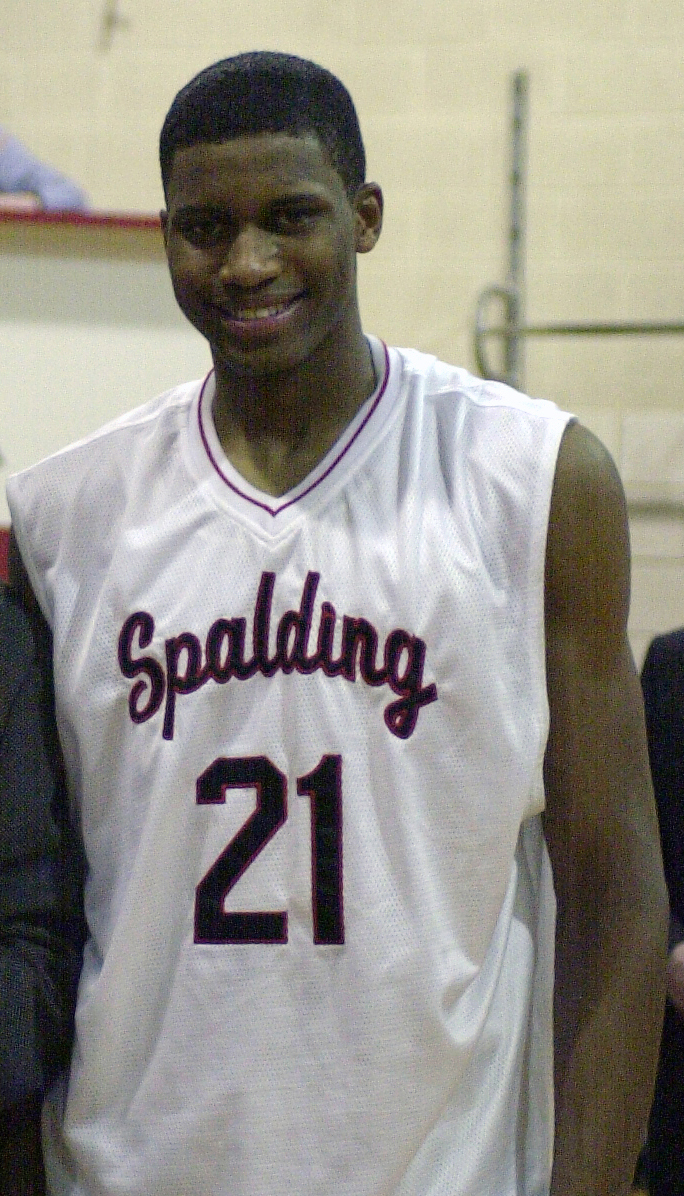 Left: Jim Calhoun, head basketball coach, University of Connecticut. Right: Rudy Gay, former UConn basketball player, now with the Memphis Grizzlies Location: Archbishop Spalding High School in Severn, Maryland